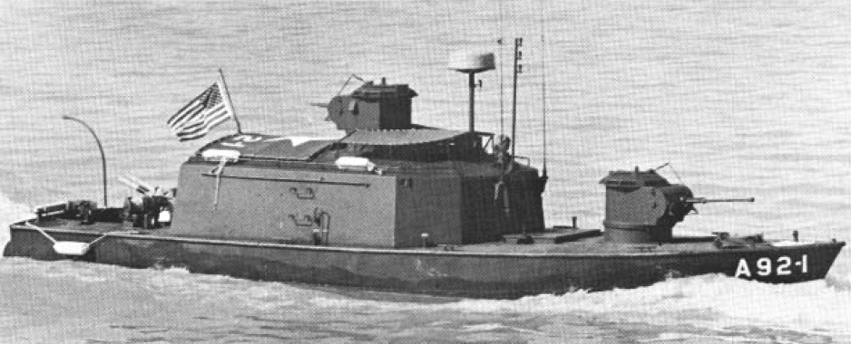 A U.S. Navy Assault Patrol Boat (ASPB) of River Aussault Division 92 in Vietnam, circa 1968.